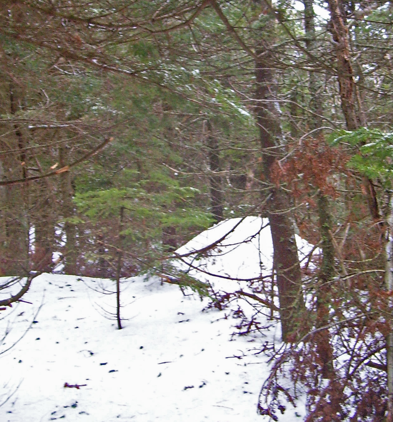 Summit of Thomas Cole Mountain , fifth highest in the Catskills, in winter.